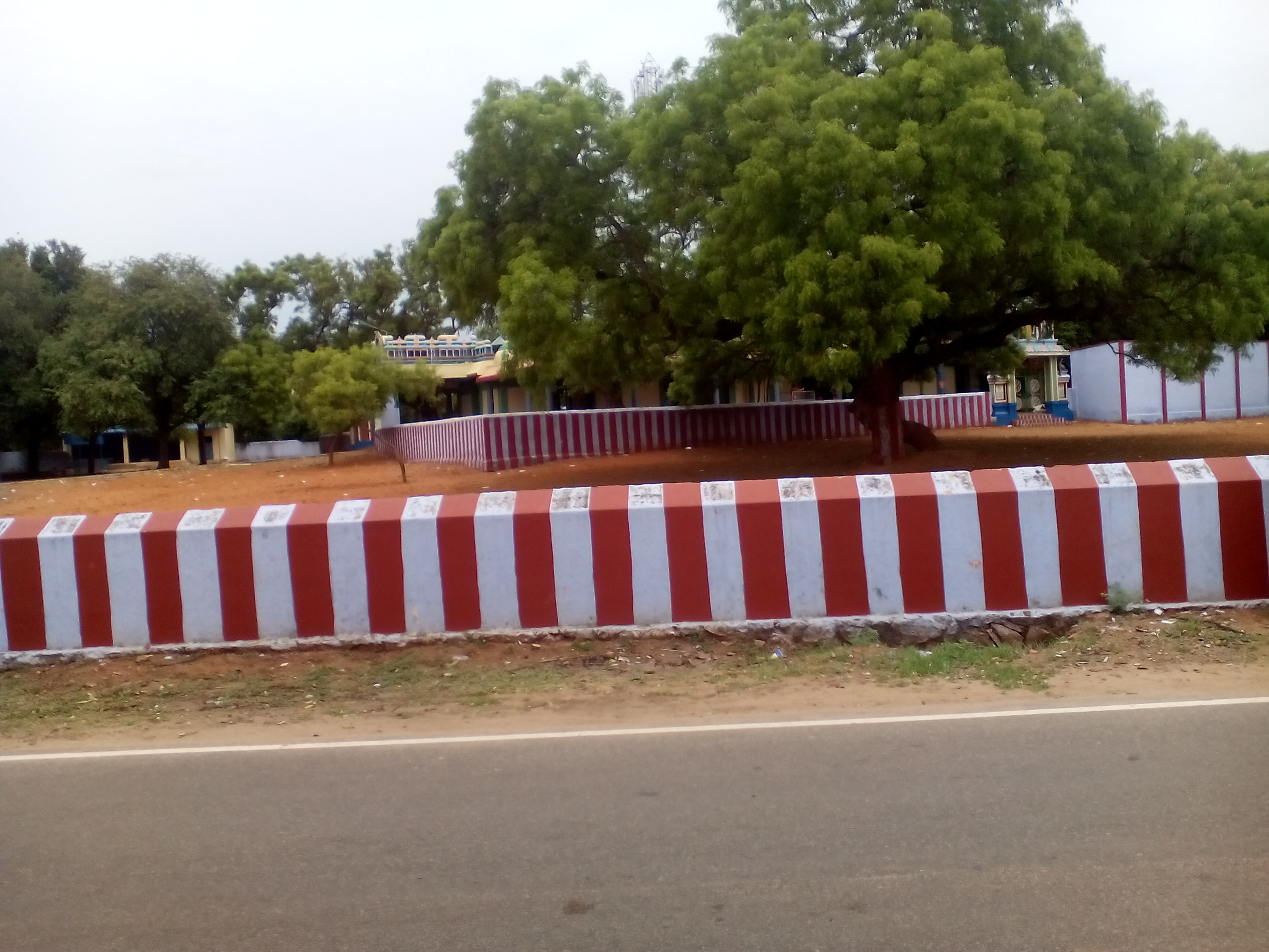 TEMPLE